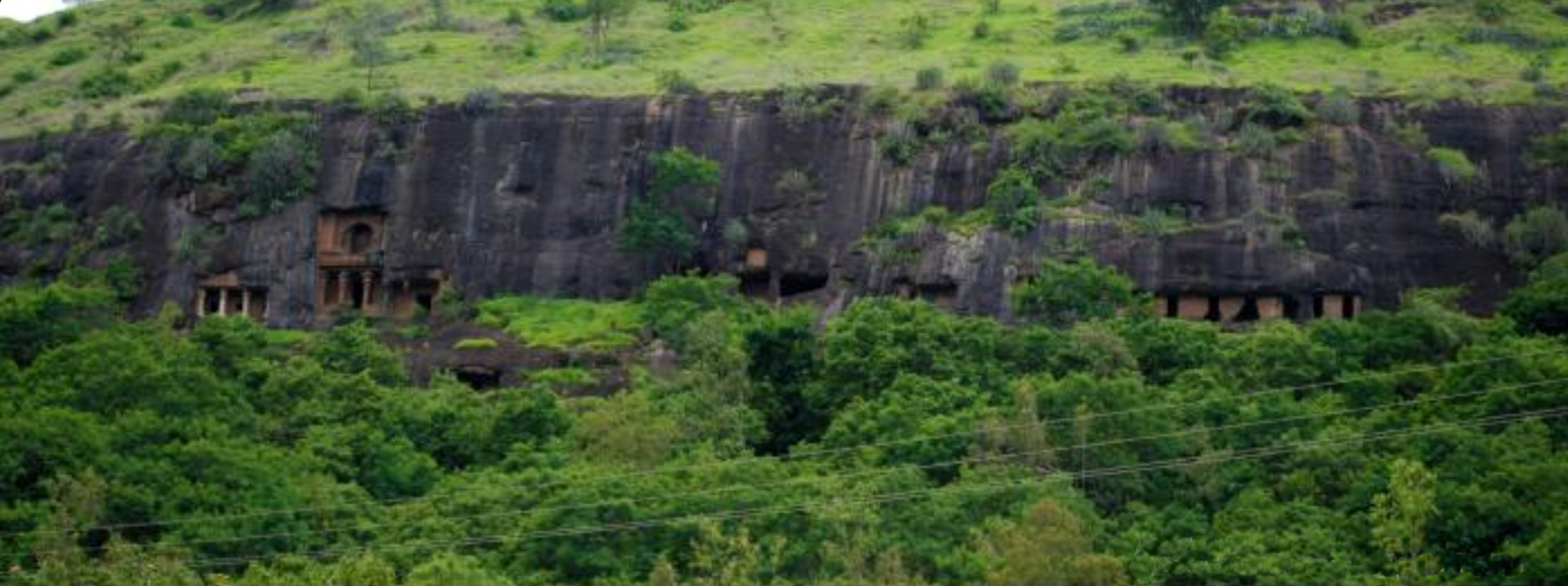 Bhimashankar Group in the Manmodi caves